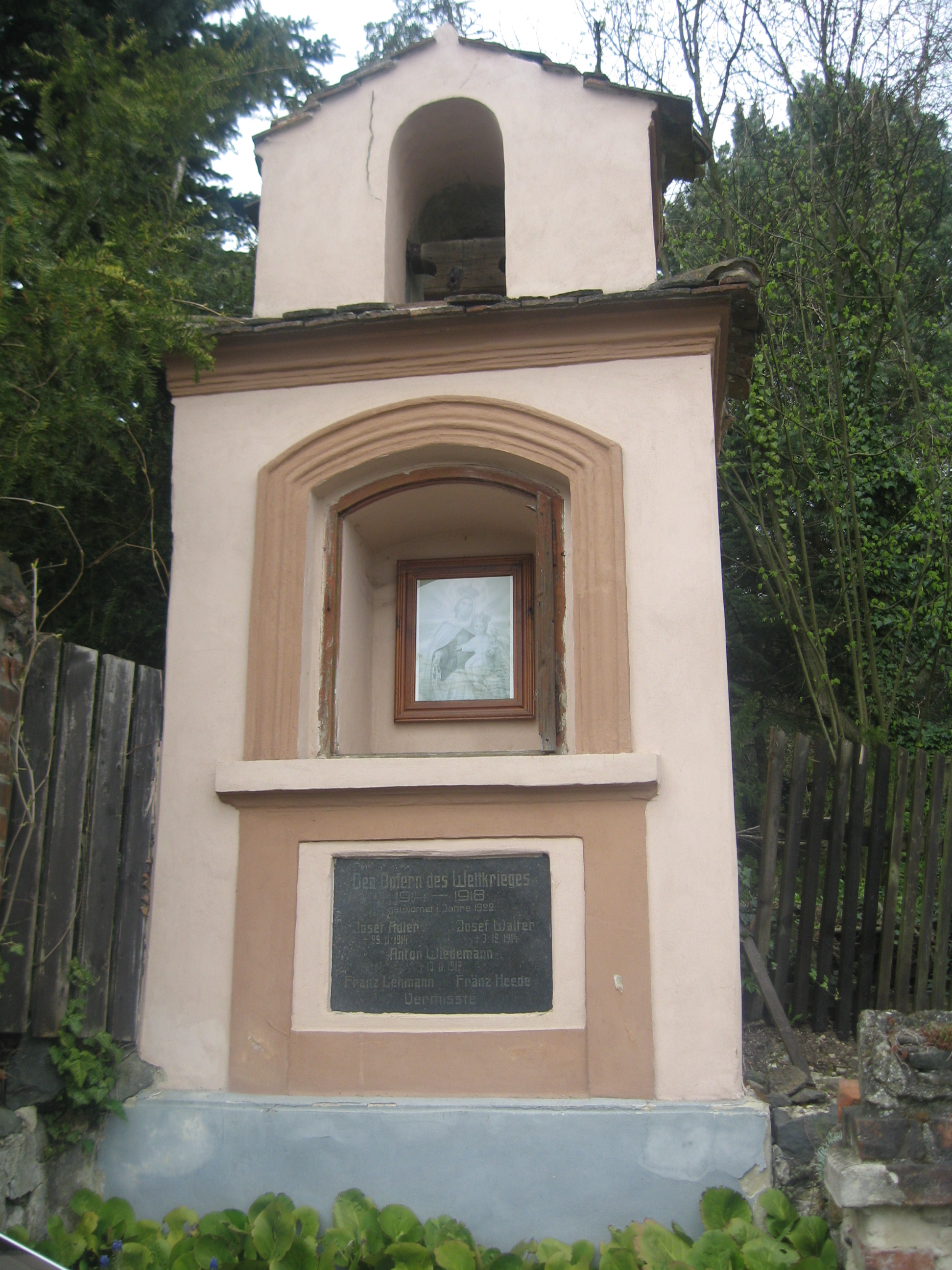 Wayside shrine in Dřevce with the plaque of victims in the World War I